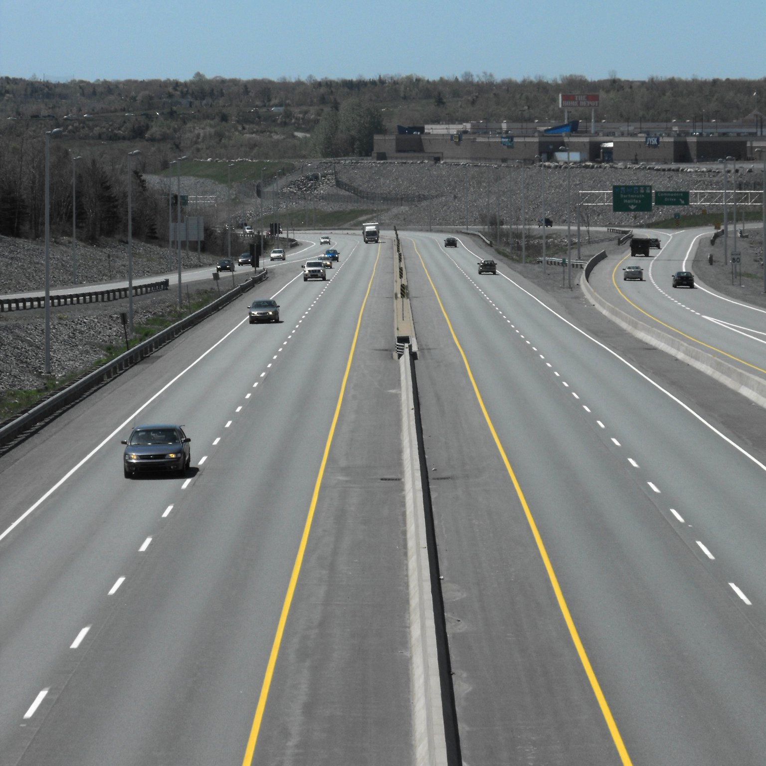 View of NS Highway 118 in Dartmouth Nova Scotia. The road on the right is a collector-distributor; that on the right is an off-ramp serving Dartmouth Common, a large retail commercial development.